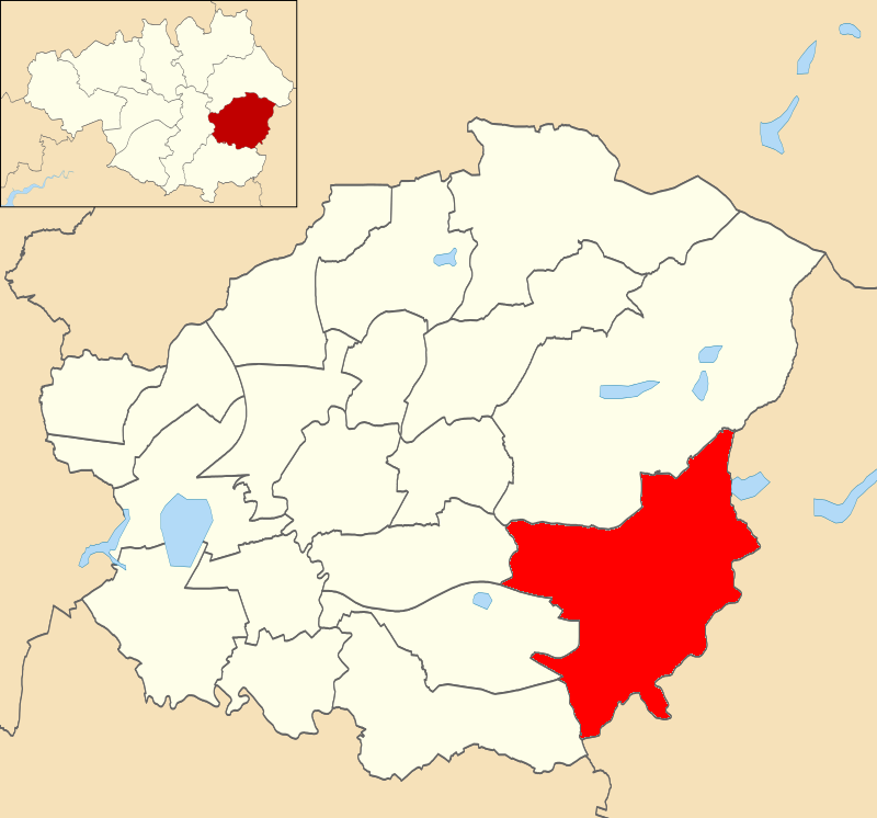 Map showing location of Longdendale Ward within Tameside Metropolitan Borough Council.